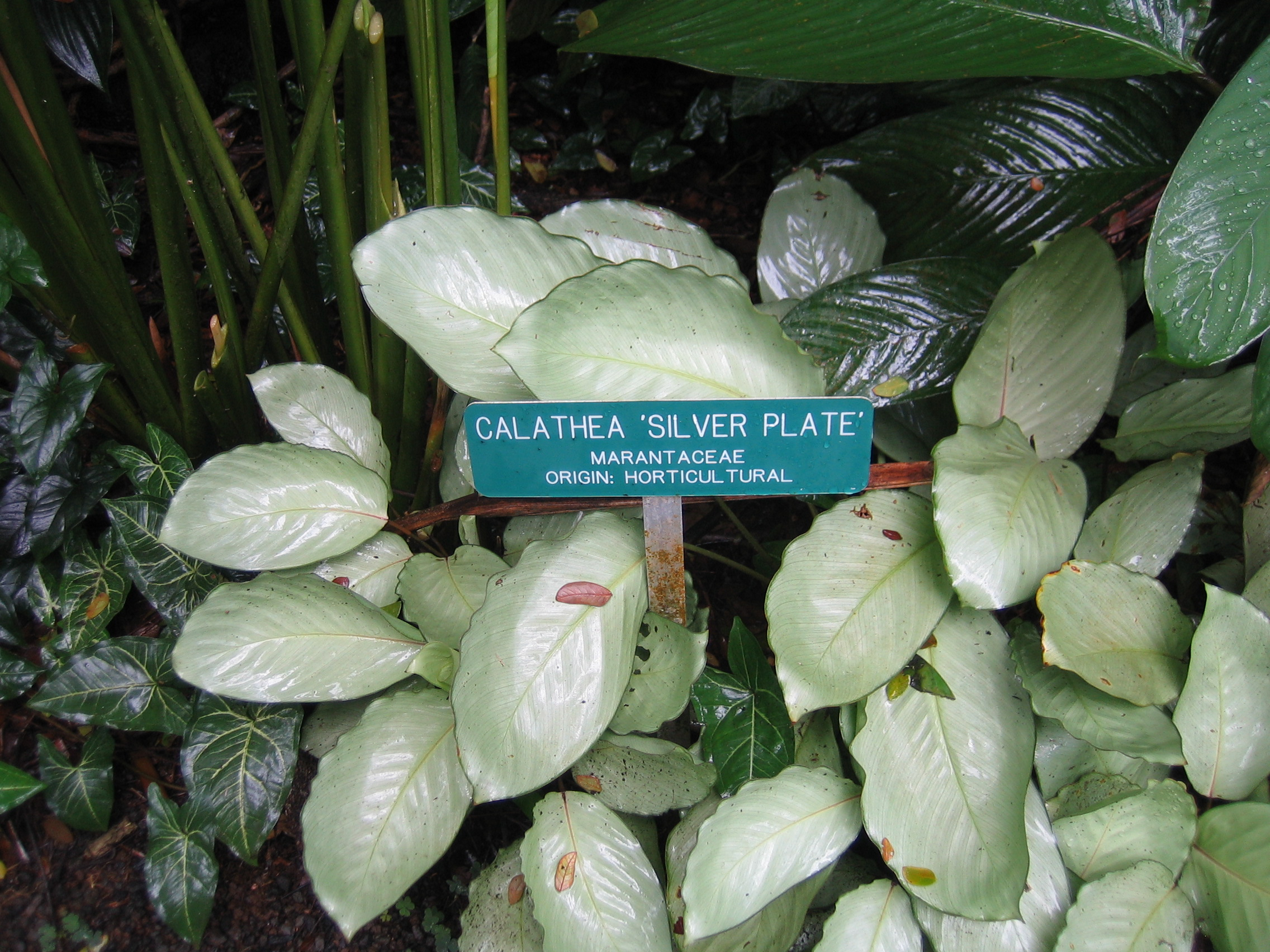 Image of a Silver Plate Calathea in the Hawaii Tropical Botanical Garden.